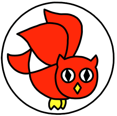 Internal coat of arms of the Bundeswehr (Armed Forces of the Federal Republic of Germany). → Remarks on naming and categorization scheme